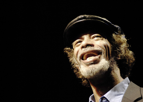 Gil Scott Heron smiles while on stage in front a packed house at the Regency ballroom, Friday, October 3, 2009 in San Francisco.